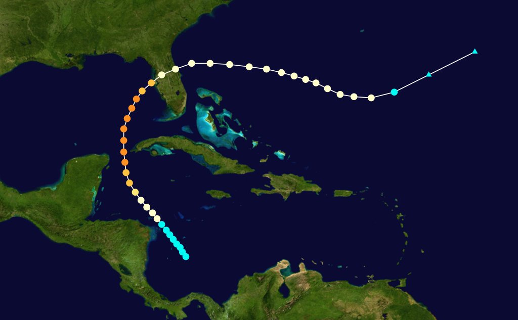 1921 Tampa Bay hurricane track. Uses the color scheme from the Saffir-Simpson Hurricane Scale.